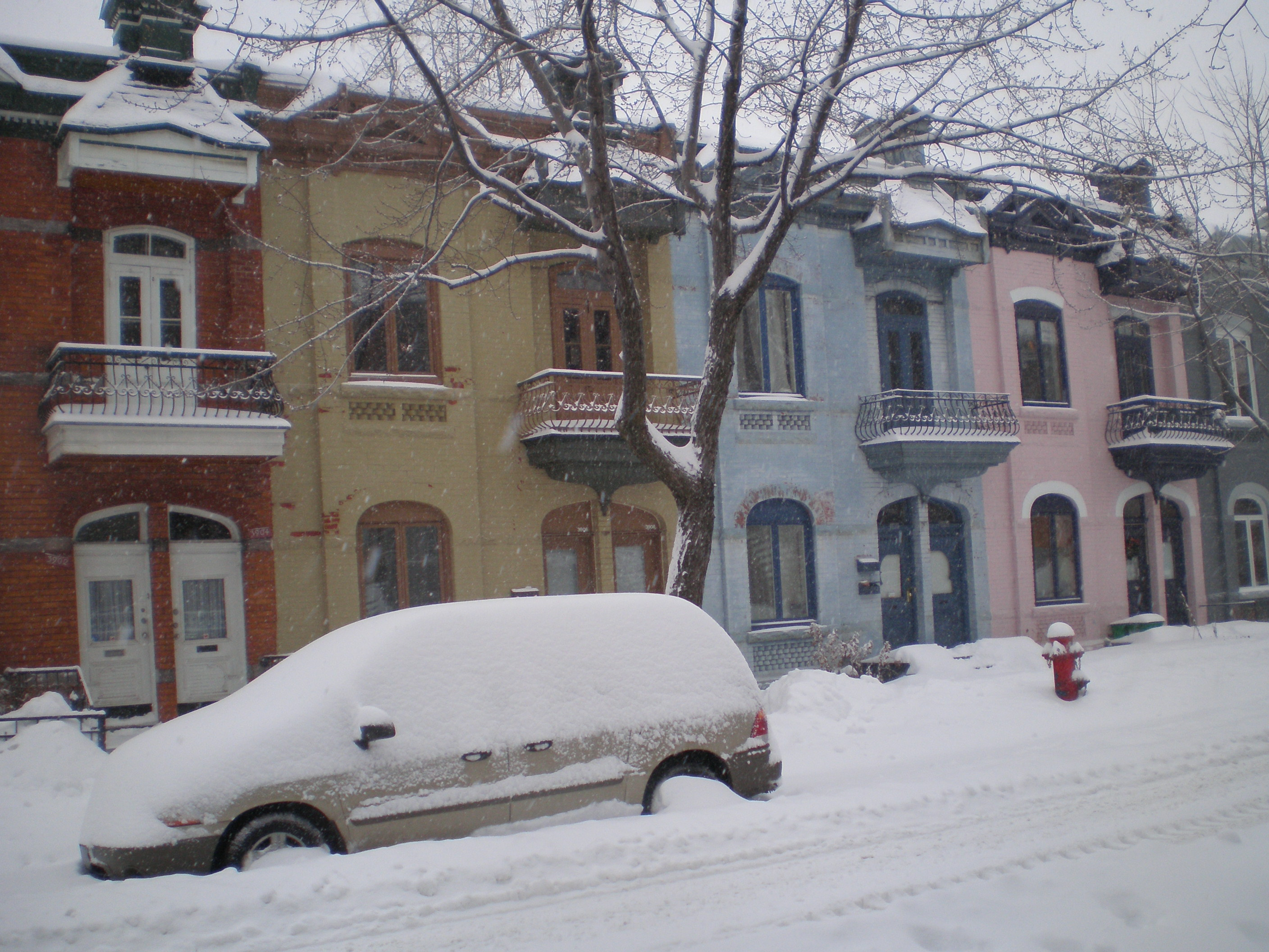 Snow on le Plateau-Mont-Royal, Montréal